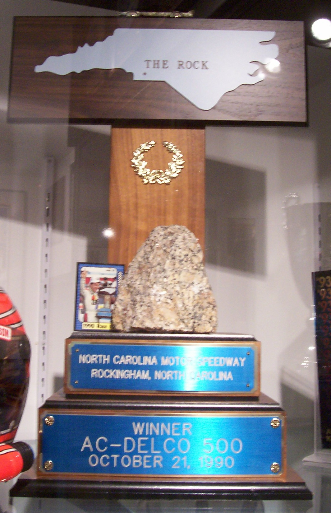 The winner's trophy awarded to Alan Kulwicki for winning the AC Delco 500 at North Carolina Speedway on October 21, 1990. Taken September 3, 2007 by myself.